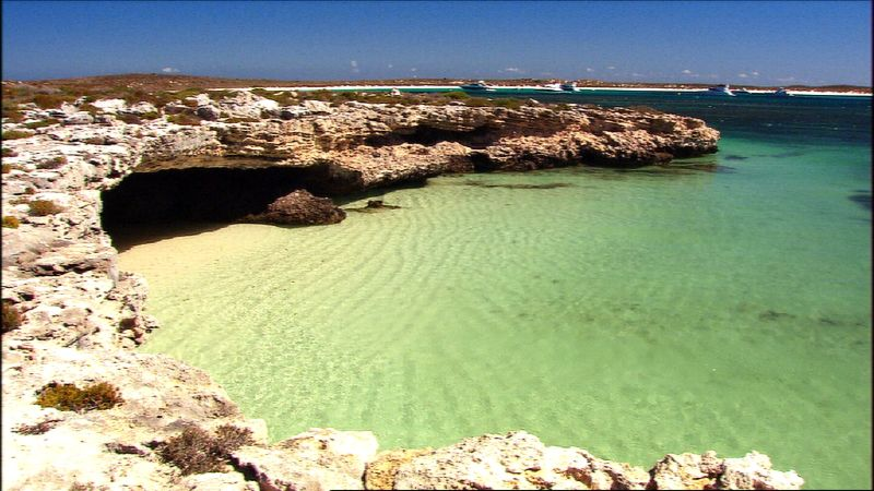 This is a photograph of a beach informally known as "Cave Beach", located on one of the Wallabi Islands in the Wallabi Group of the Houtman Abrolhos.